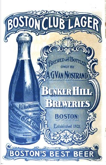 The Taunton Directory 1899